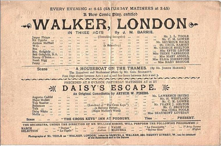 Theatre programme for play Walker, London by JM Barrie (1892) listing Mary Ansell